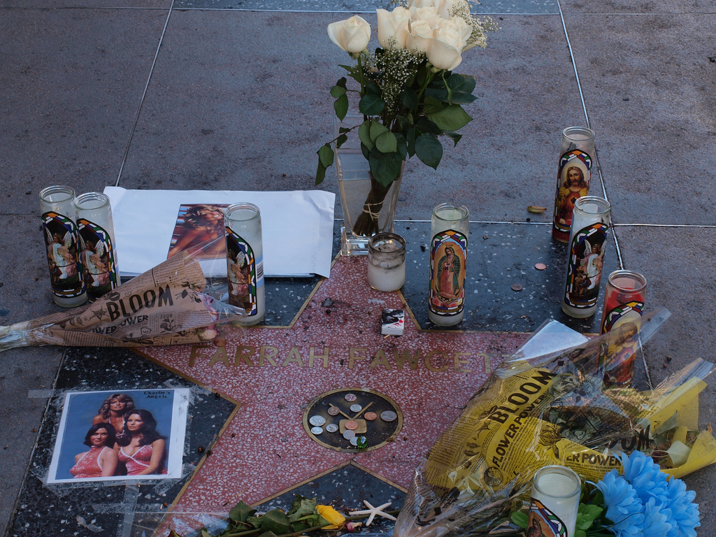 So this was on the day of Michael Jackson's funeral. It's Farrah Fawcett's Hollywood star.